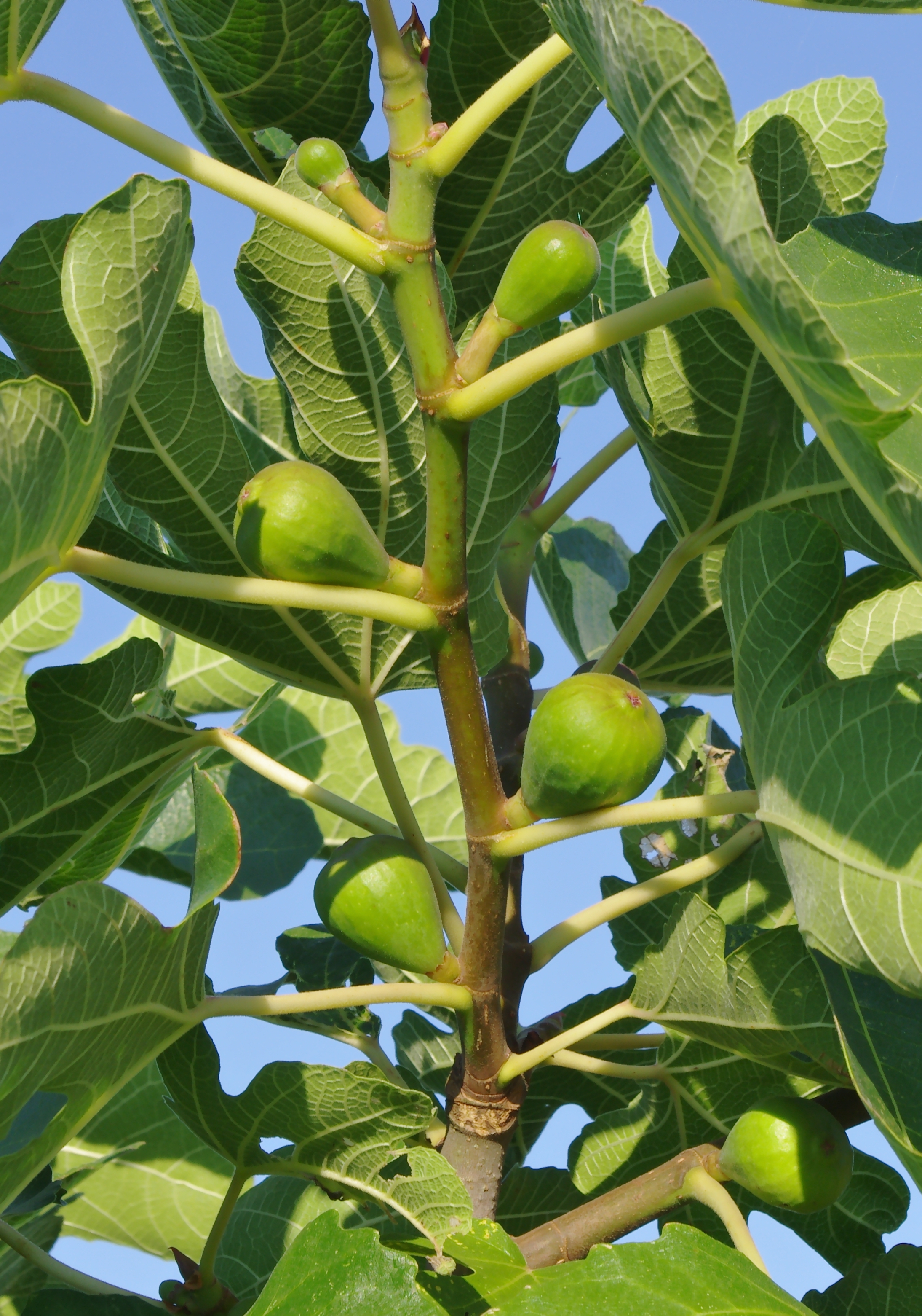 Common fig tree (Ficus carica), leaves and fruit, in a garden France.